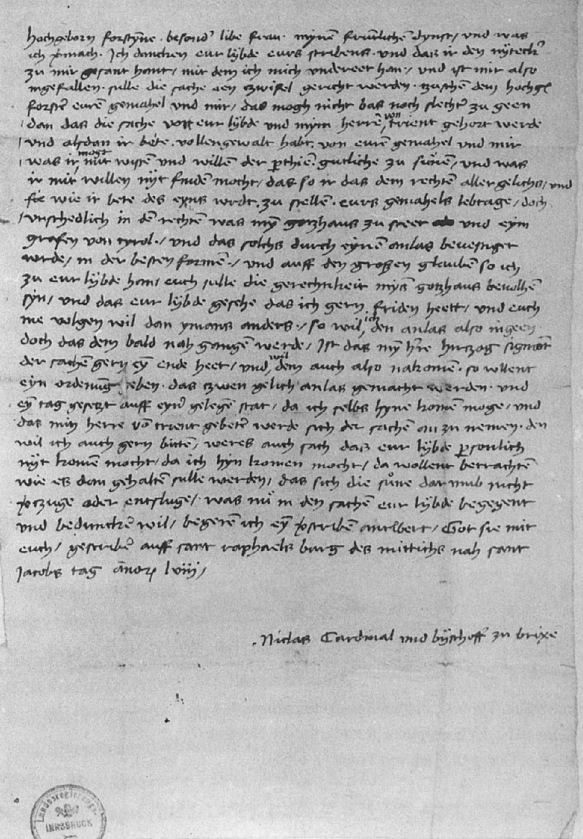 Original letter by Nicholas of Cusa to the Duchess Eleanor of Scotland. June 26, 1458. Eigenhändiger Brief von Nikolaus von Kues an die Herzogin Eleonore von Schottland. 26. Juni 1458.